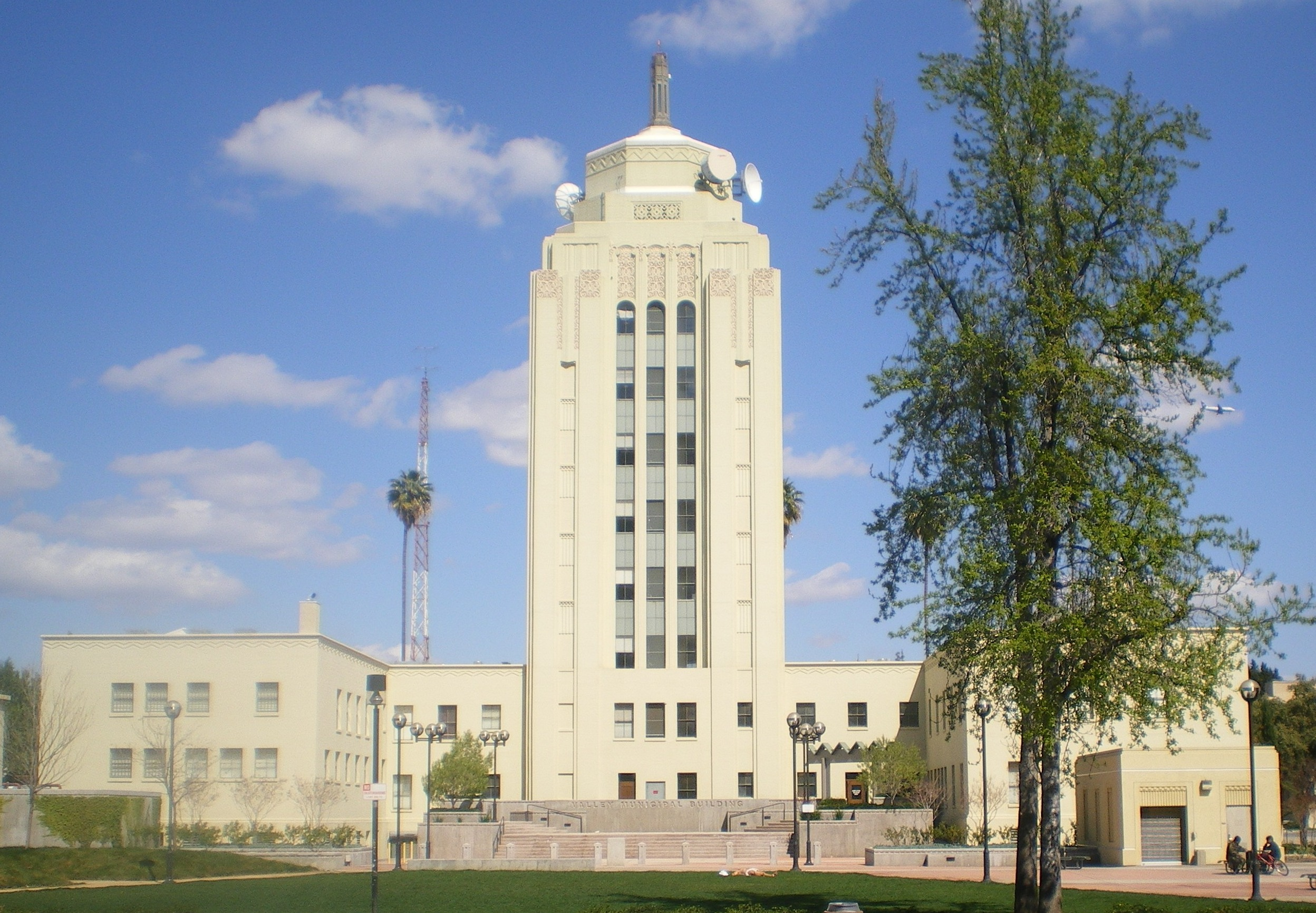 Valley Municipal Building — Van Nuys Government Center, serving the San Fernando Valley in Van Nuys, Los Angeles, California . A Los Angeles Historic-Cultural Monument.